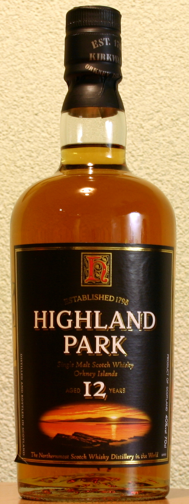 Highland Park Single Malt Whisky 12 years old